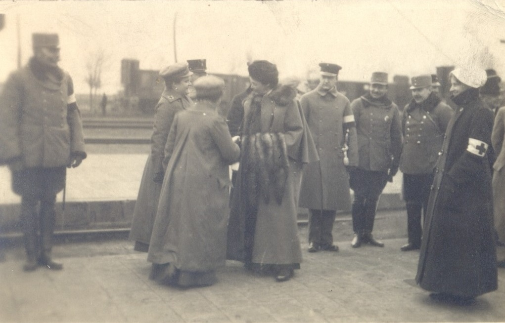 Eleonore Reuss of Köstritz, Skopie, 1915.